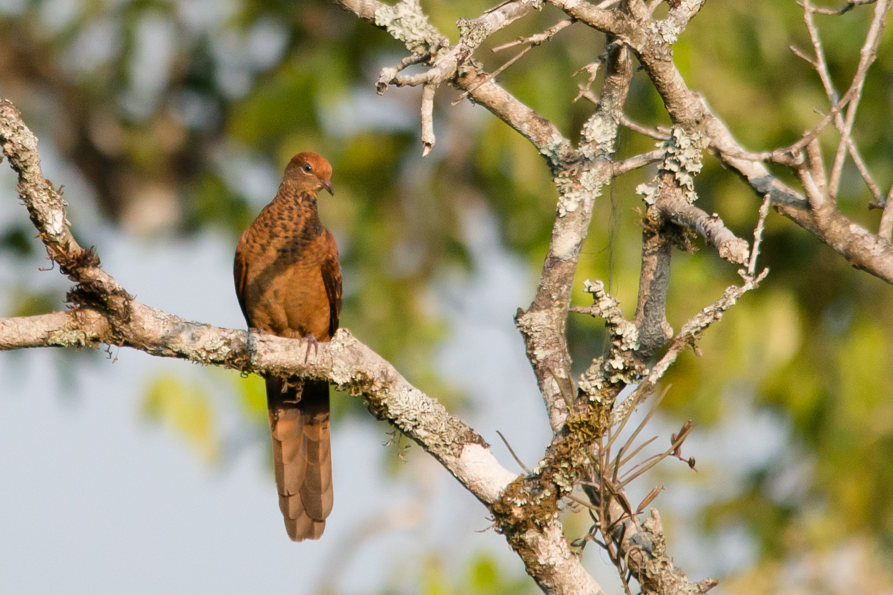 Macropygia ruficeps, little cuckoo-dove - Kaeng Krachan National Park, Thailand.